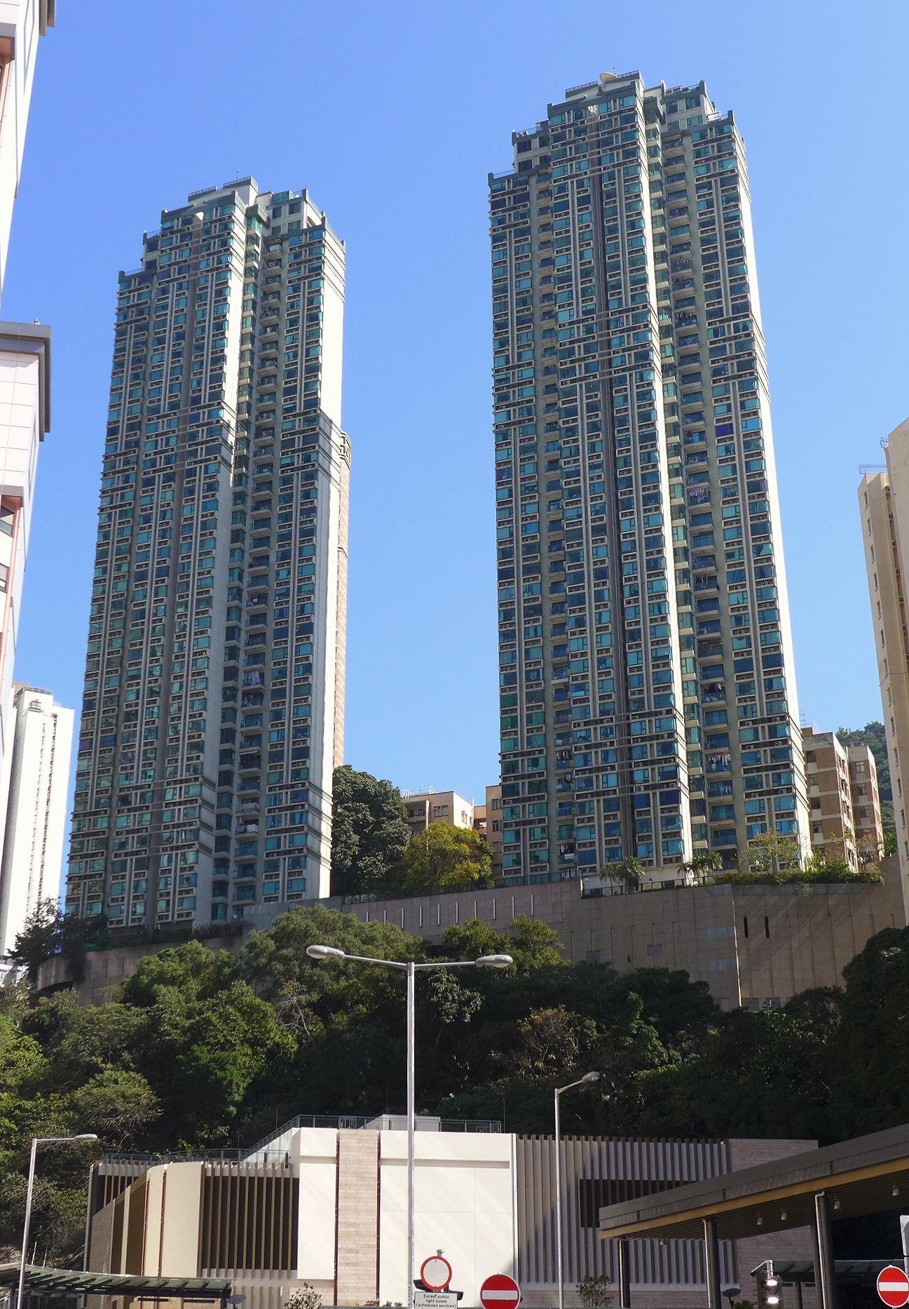 University Heights